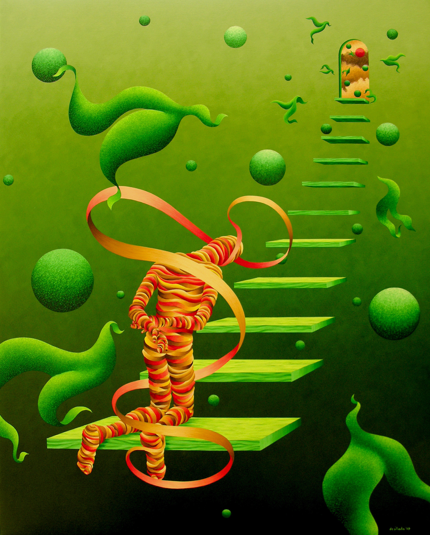 Bandage of Faith